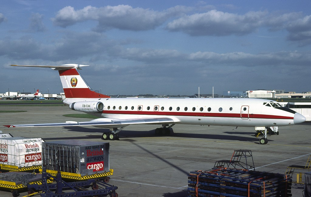 Aircraft Mozambique Government Tupolev Tu-134AK Reg.: C9-CAA MSN: 63457 Location & Date London - Heathrow (LHR / EGLL) England, United Kingdom - October 1983